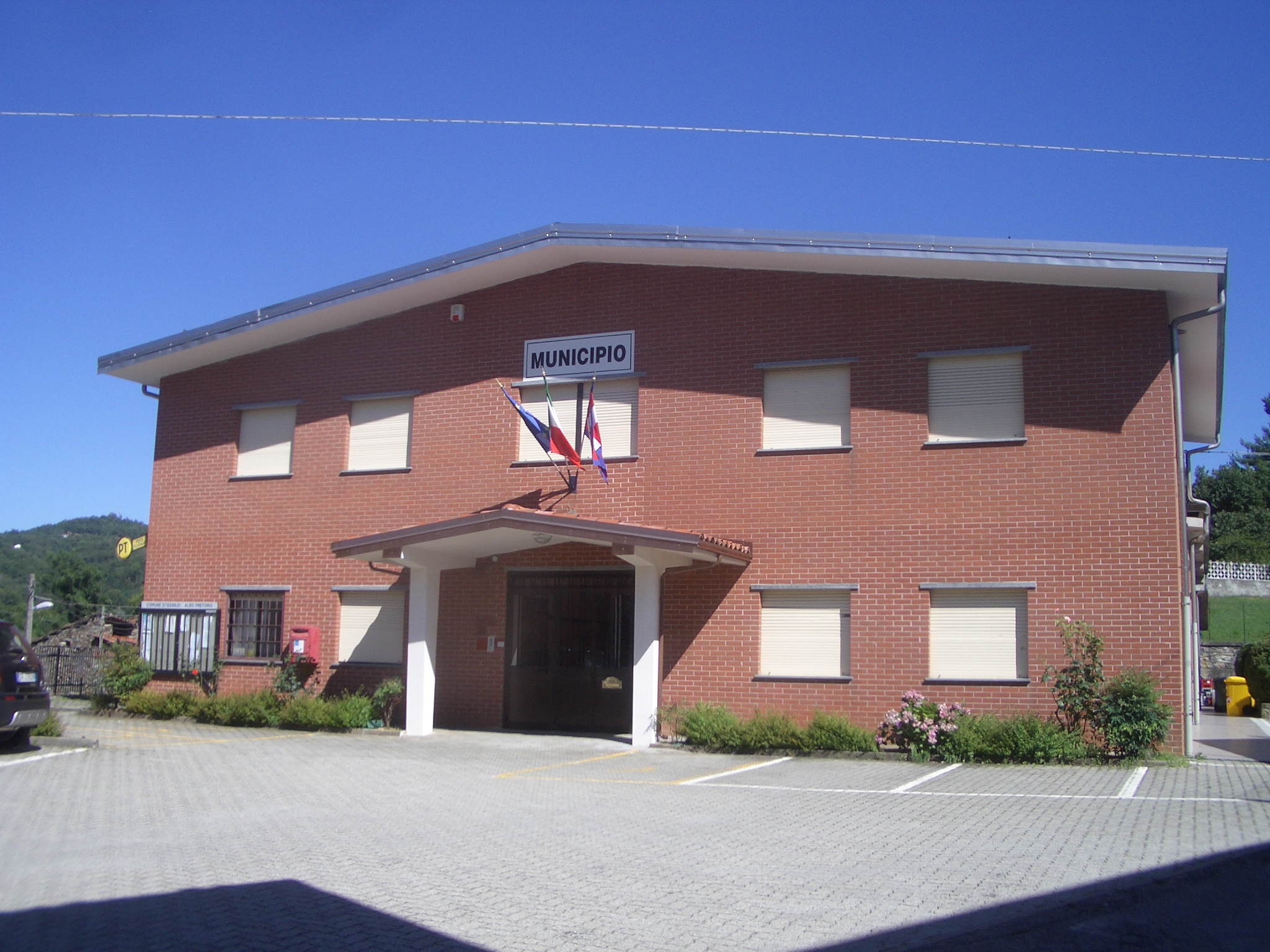 Issiglio, Toown Hall